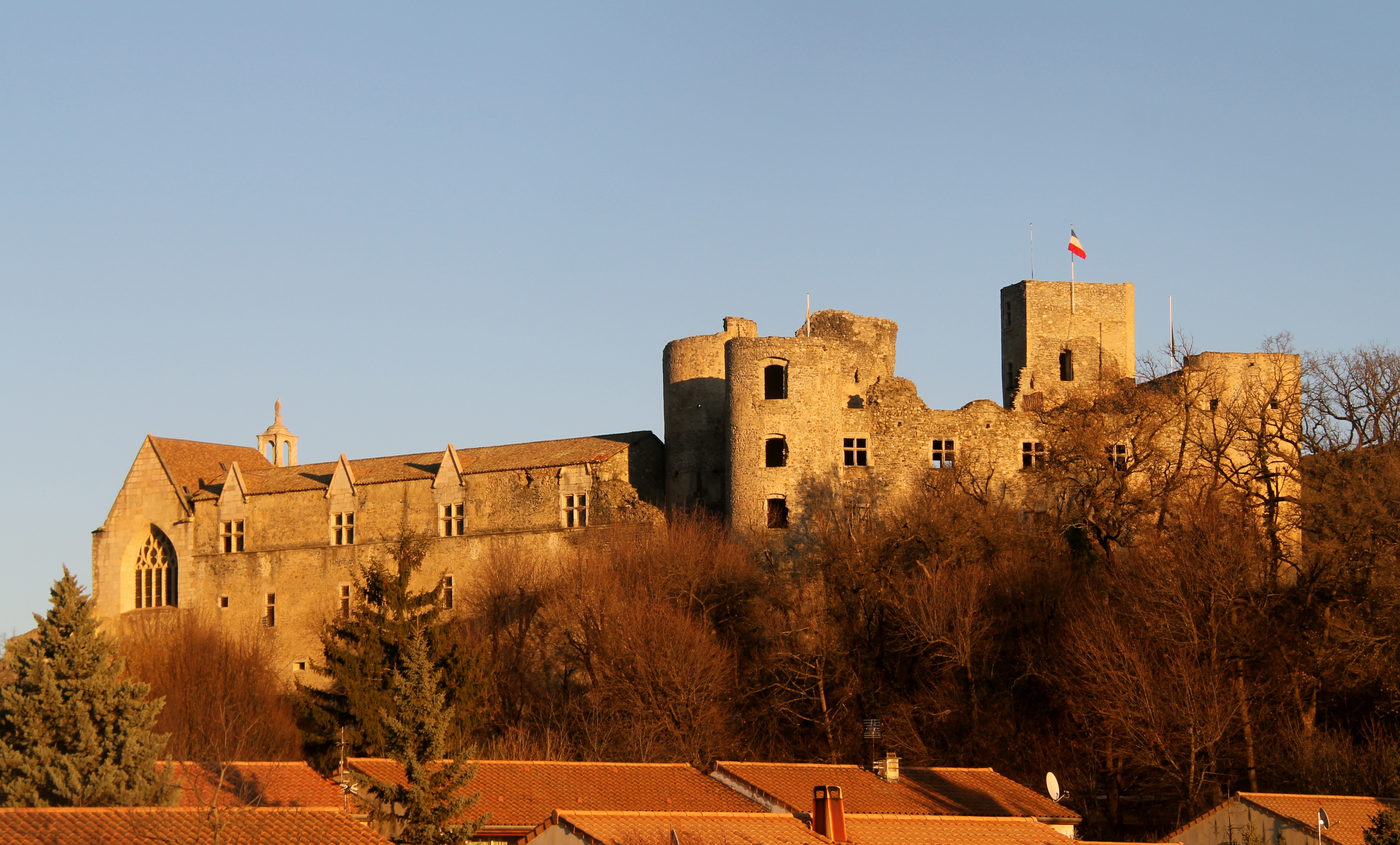 Château de Tallard from the west